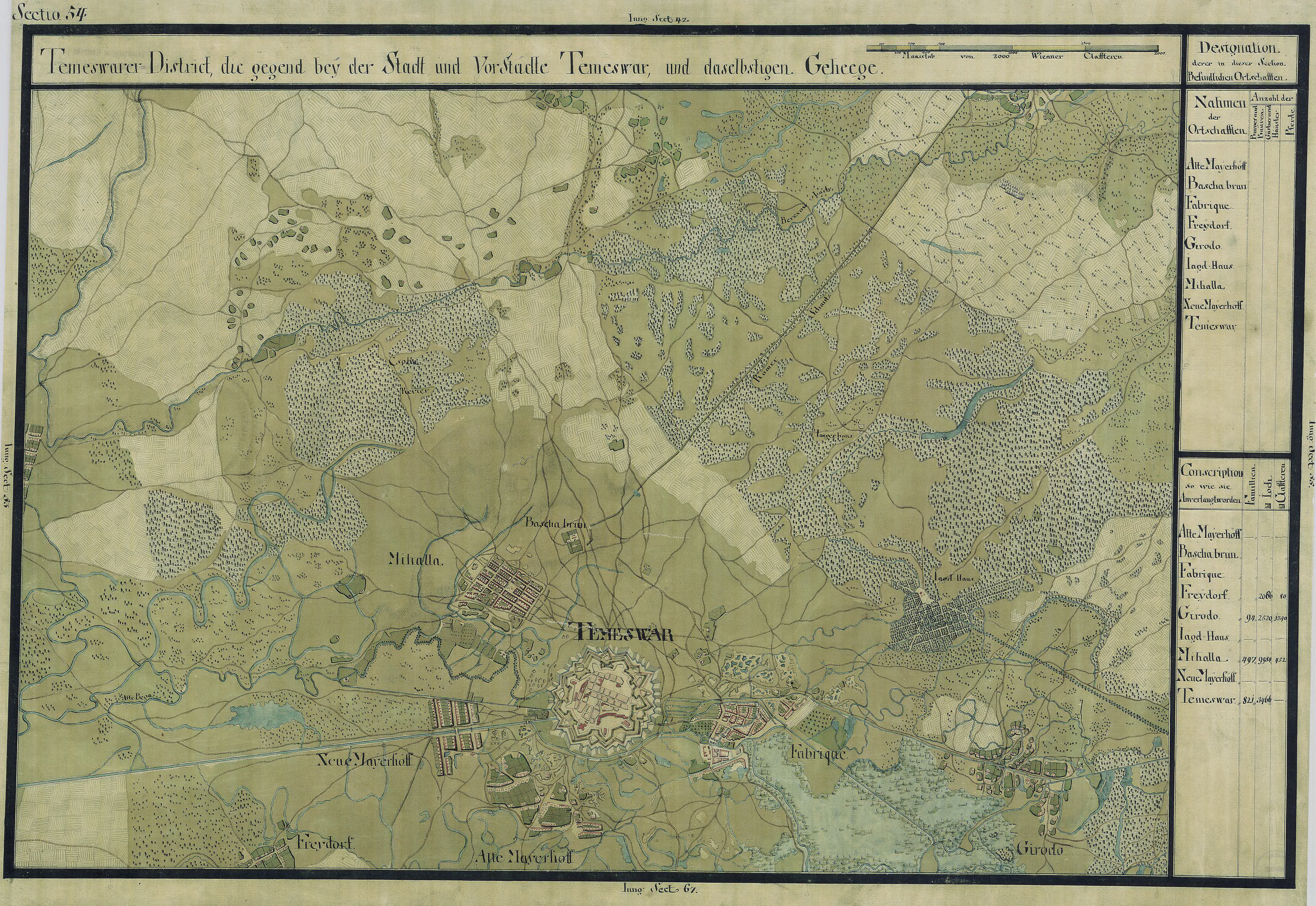 The Timișoara region in the cadastral maps: Josephinische Landesaufnahme, 1769-72. Josephinische Landaufnahme pg054